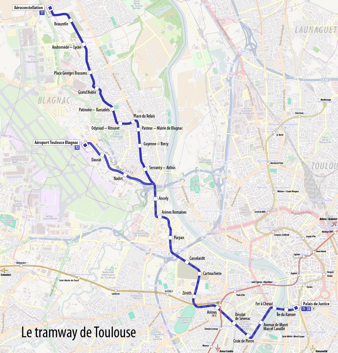 Tramway plan of Toulouse, France